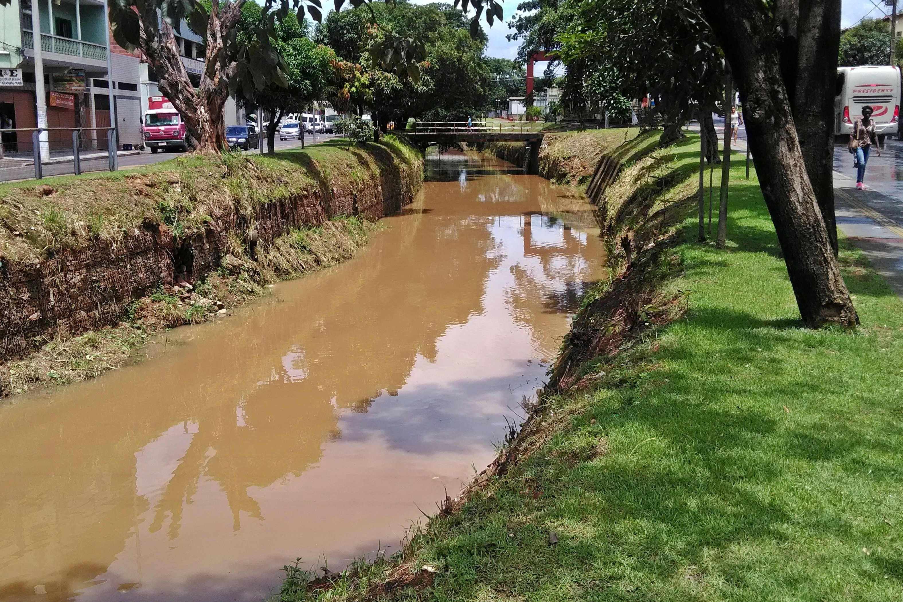 Caladão Stream between the Santa Terezinha and Santa Helena neighborhoods after a period of intense rains, in Coronel Fabriciano, Minas Gerais, Brazil.